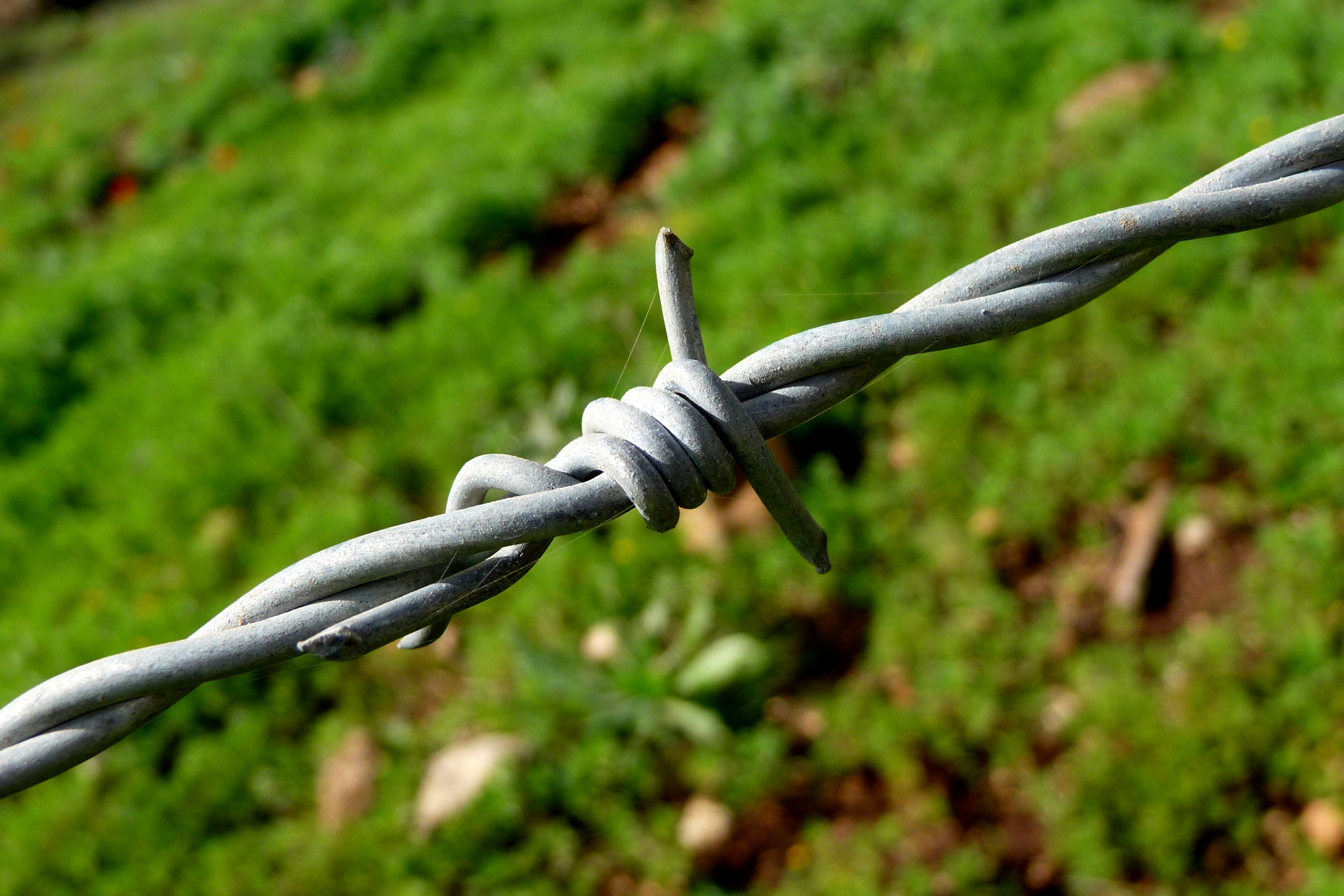 Carmel Park